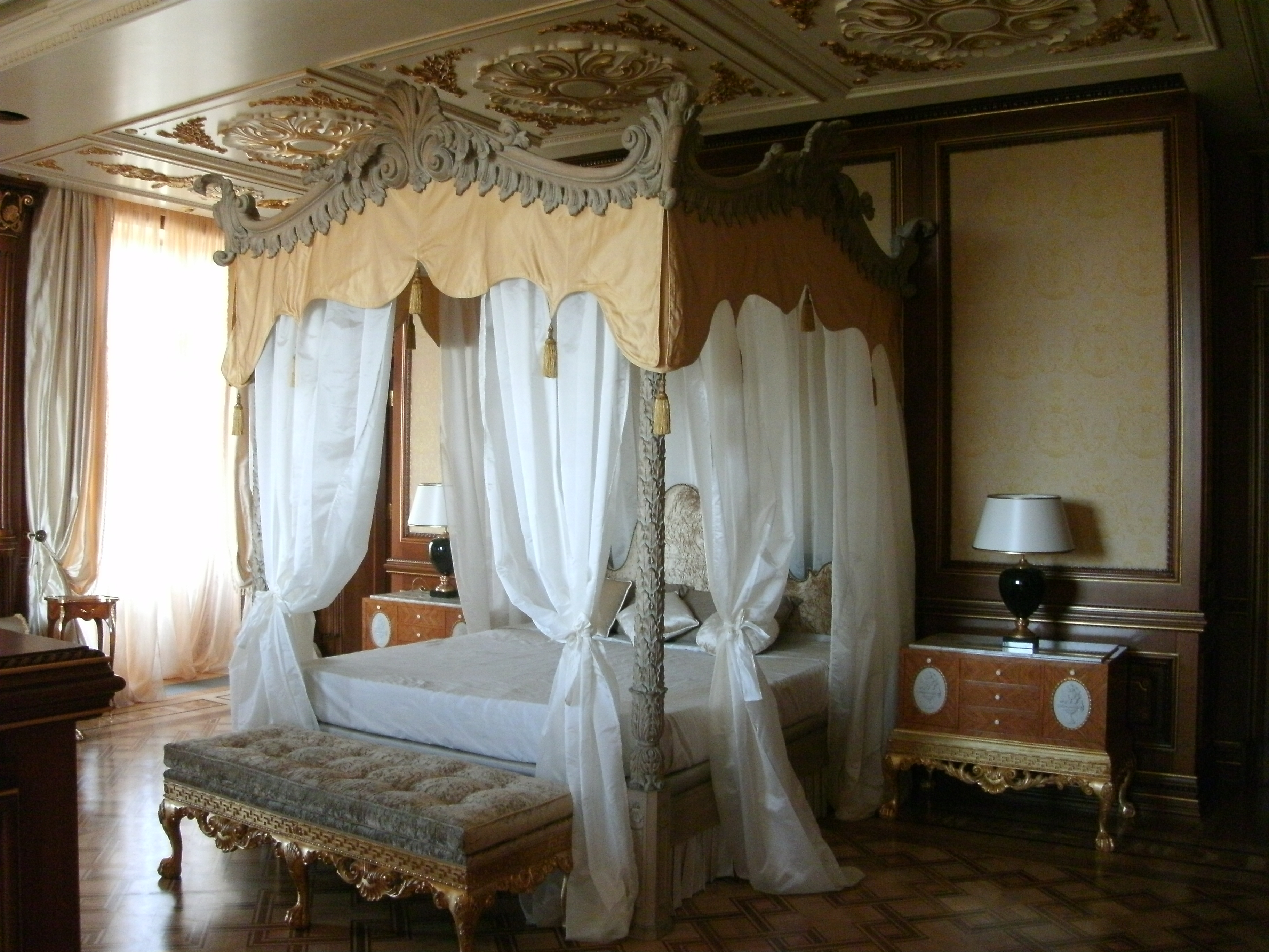 Interior of "Putin's Palace", near the village of Praskoveevka in Krasnodar Krai, Russia.